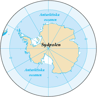 Swedish version om Image:Pole-south.gif